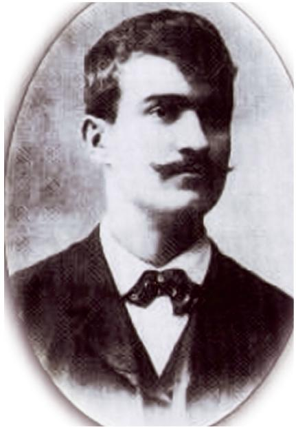 Early portrait of Yonko Vaptsarov, voevoda from IMARO, in beggining of 20 century